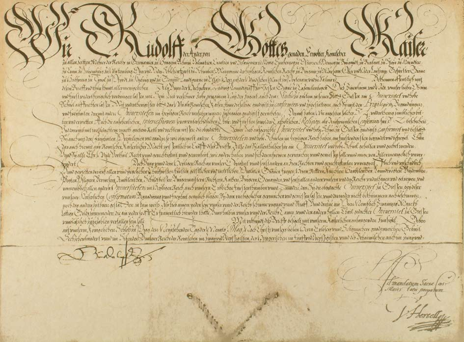 foundation charter of the Giessen University, signed by emperor Rudolf 2nd, dated: 19 May 1607